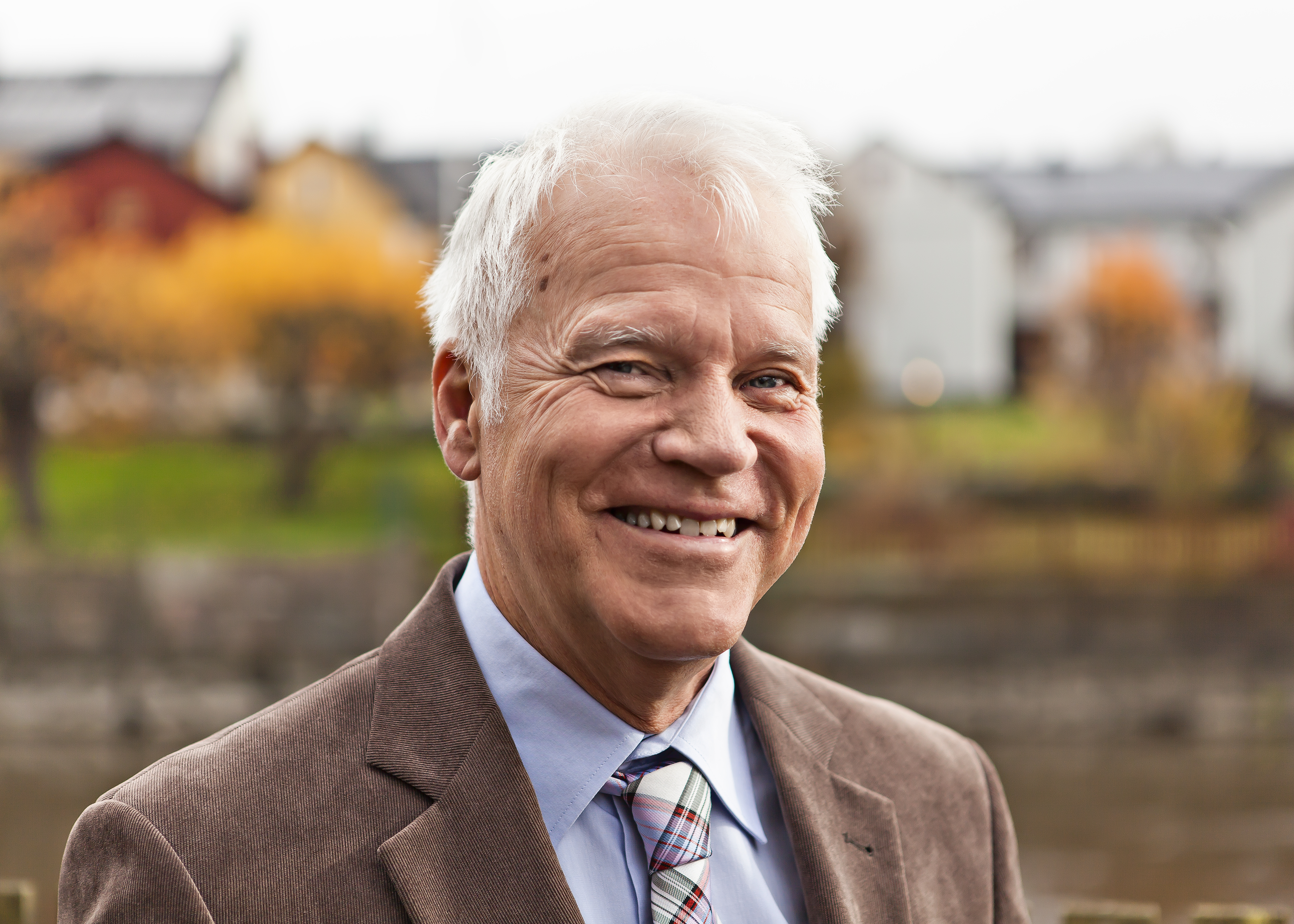 Mr Sandberg